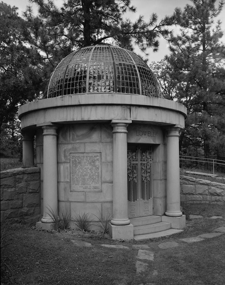 Percival Lowell mausoleum (35°12′9″N 111°39′50″W / 35.2025°N 111.66389°W) at the Lowell Observatory near Flagstaff Arizona. Constructed in 1923. The dome and colonade roof intended to evoke the planet Saturn. National Register Number: 66000172. Image taken before a secondary glass dome was installed. The border has been cropt from this image.